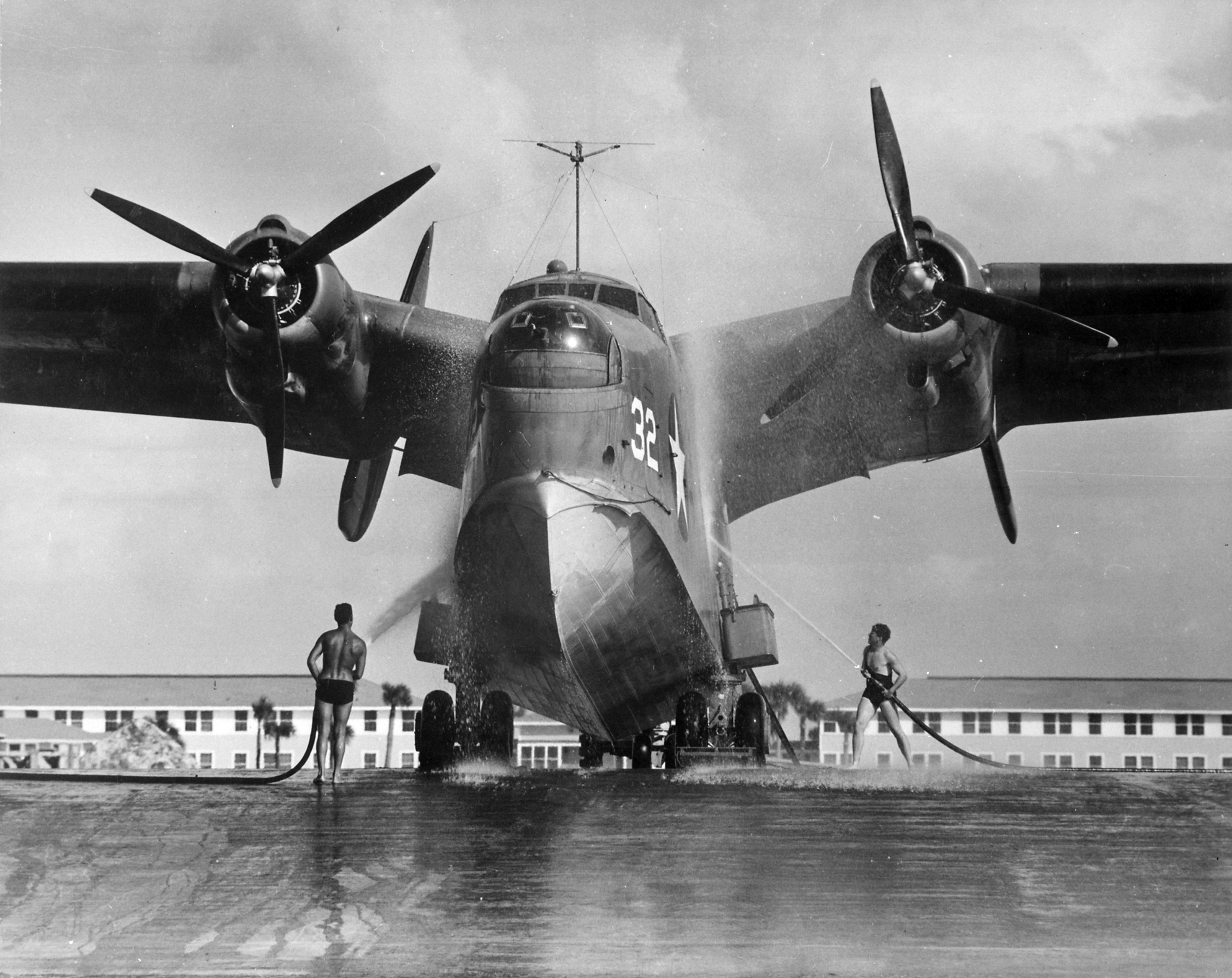 A Martin PBM Mariner patrol bomber seaplane is hosed down after it was hauled up ramp at Naval Air Station Banana River, Florida (USA), ca. March 1943.